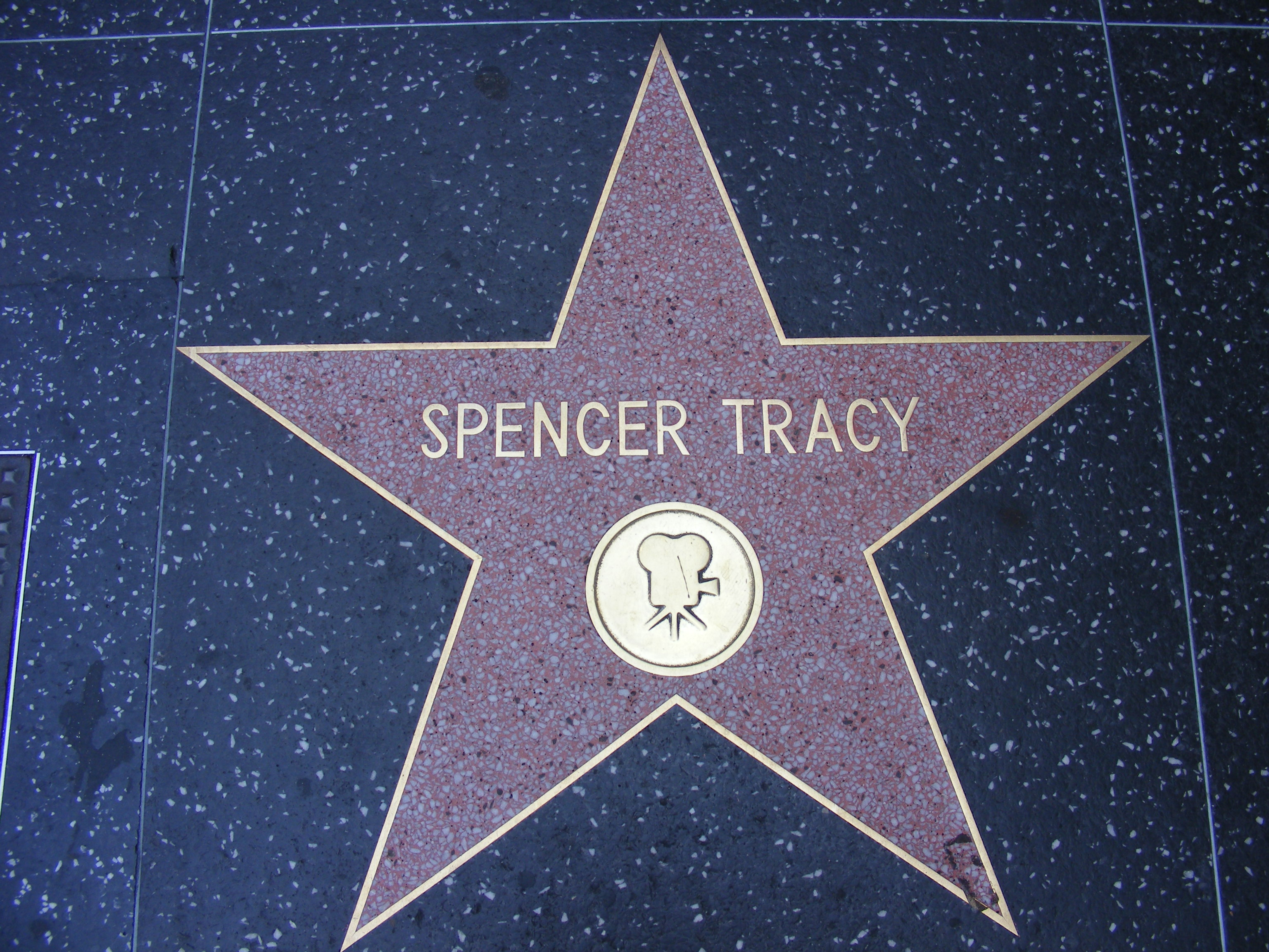 Spencer Tracy's star on the Hollywood Walk of Fame